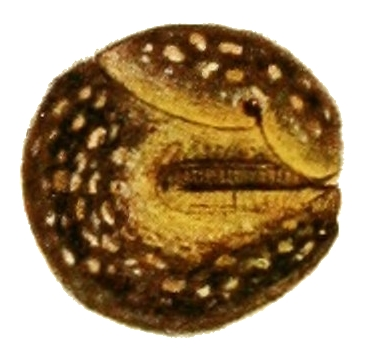 Drawing of Geomalacus maculosus as coiled in alarm.